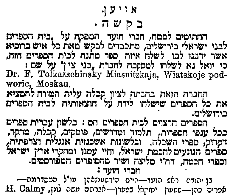 An ad from the "HaMagid" newspaper, published in 1879.